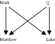 An image of the two-source hypothesis.